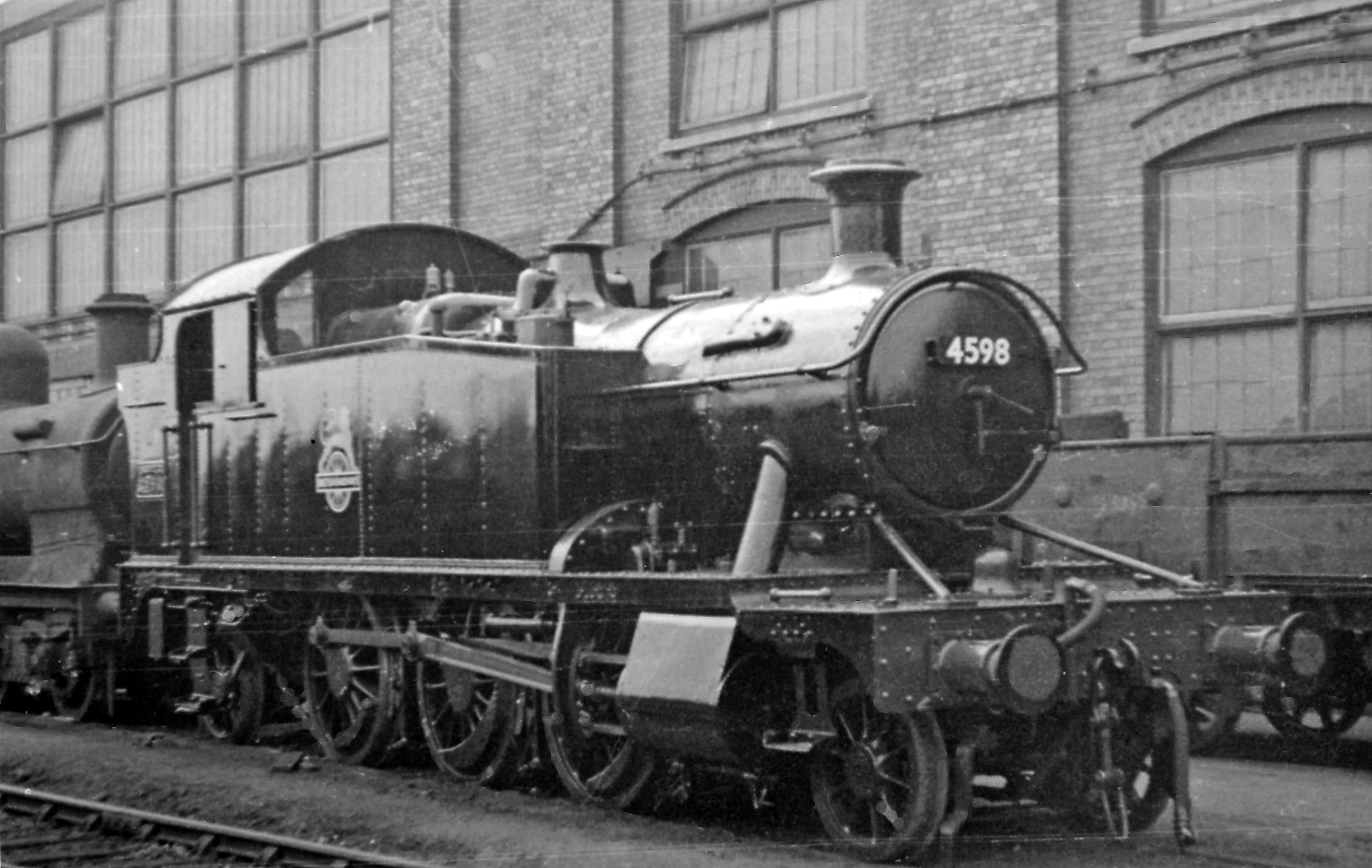 Swindon Works: '4575' 2-6-2T freshly repaired. No. 4598 (built 4/27, withdrawn 12/56). Behind is an old 4-4-0, probably doomed.